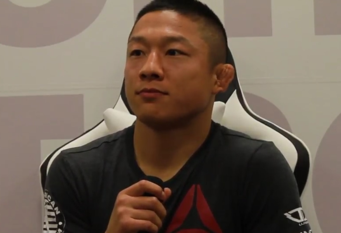 Kyoji Horiguchi Rizin FF Post Fight Interview